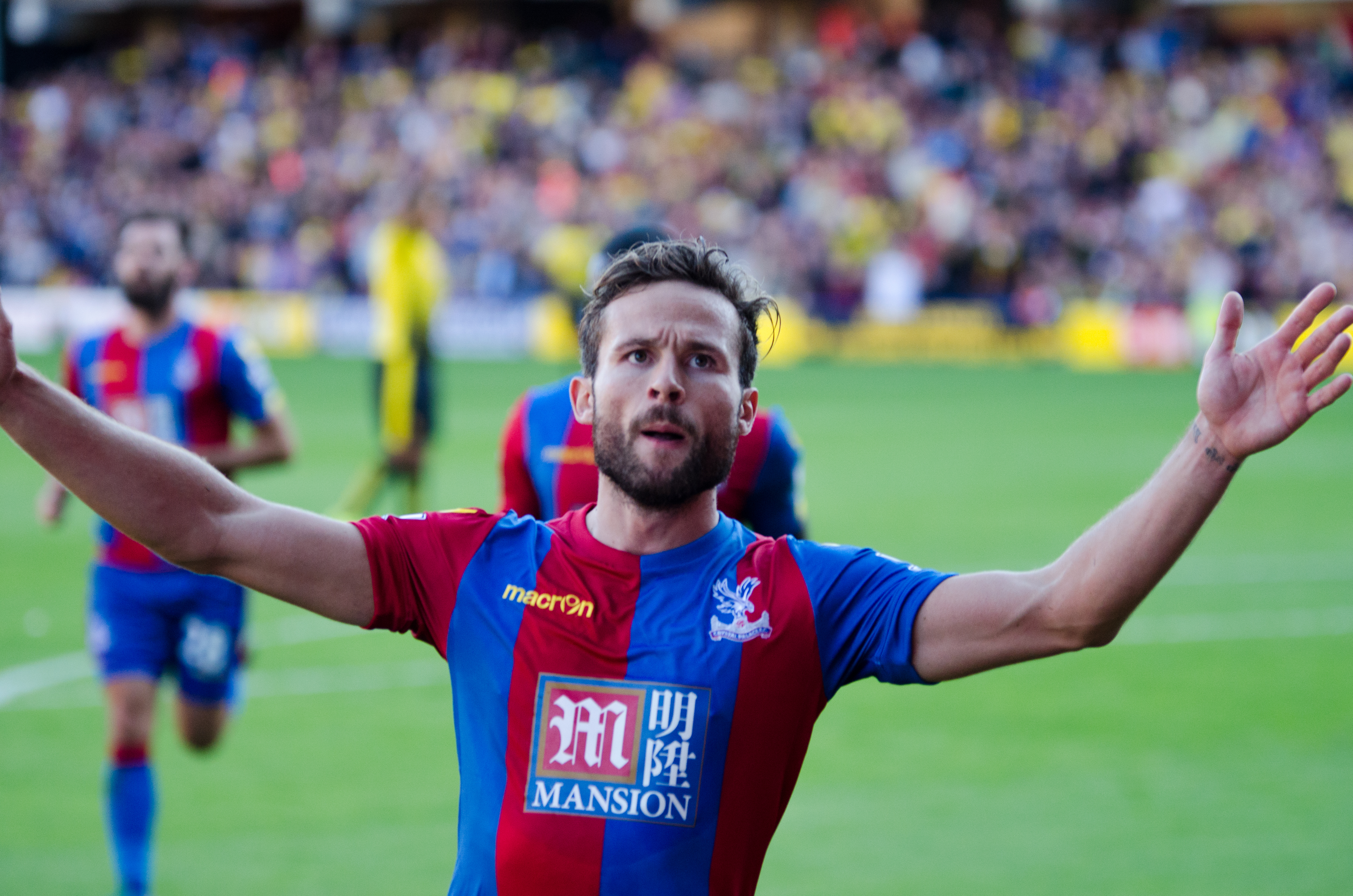 French association footballer Yohan Cabaye celebrating his goal for London-based team Crystal Palace FC